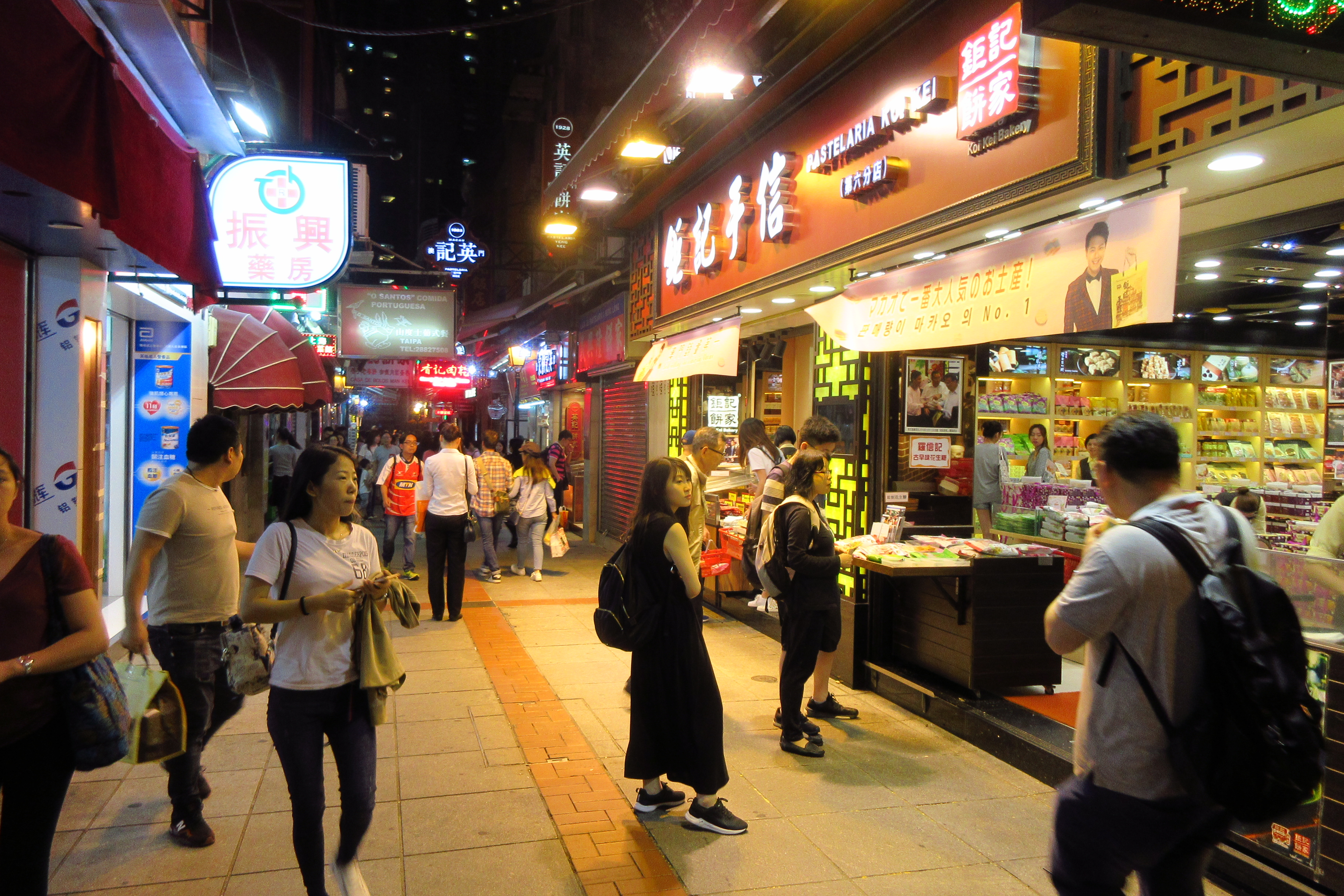 MC 澳門 Macau Tour 氹仔 Taipa 官也街 Rua do Cunha night May 2018